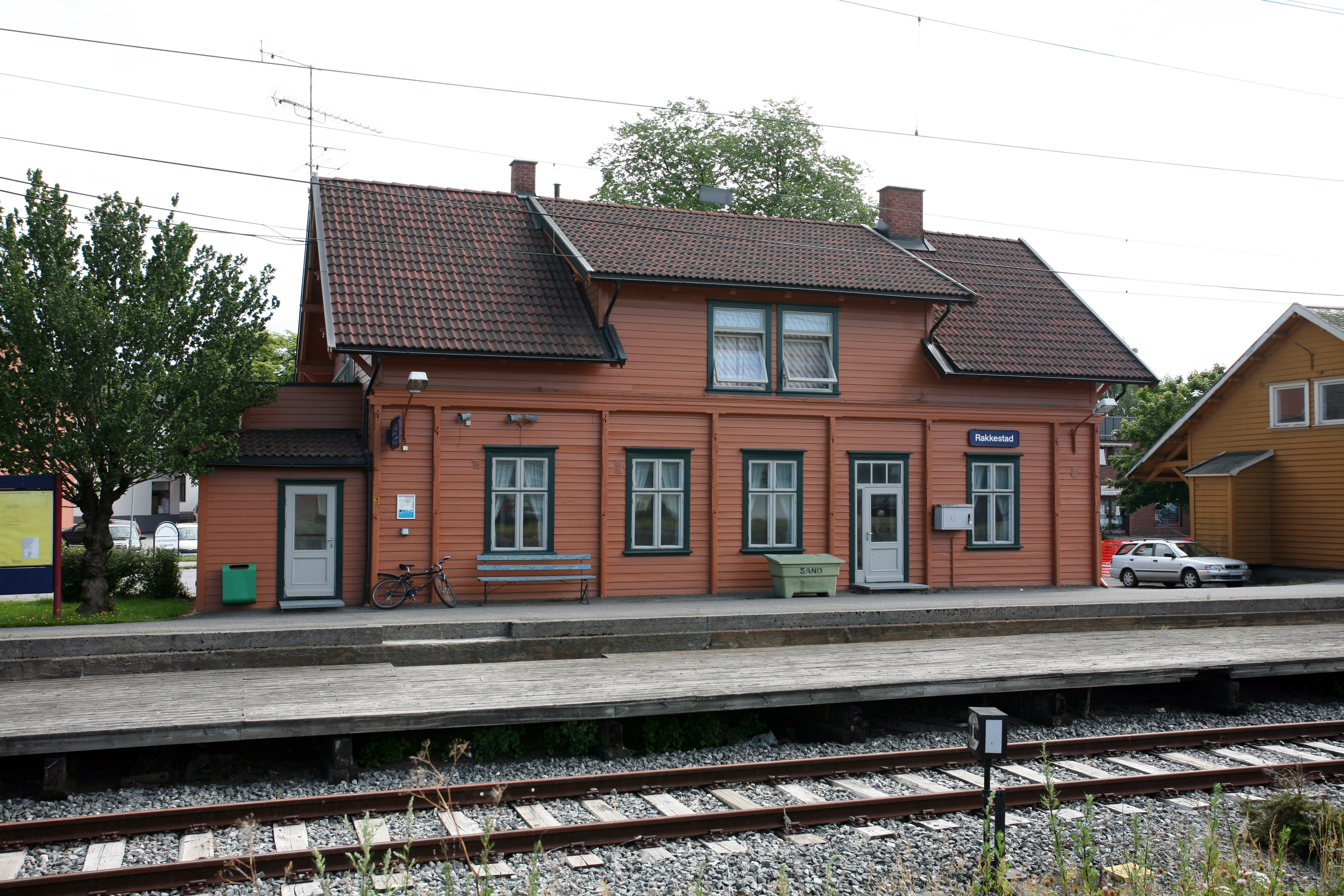 Picture of Rakkestad Railway Station (Norway)